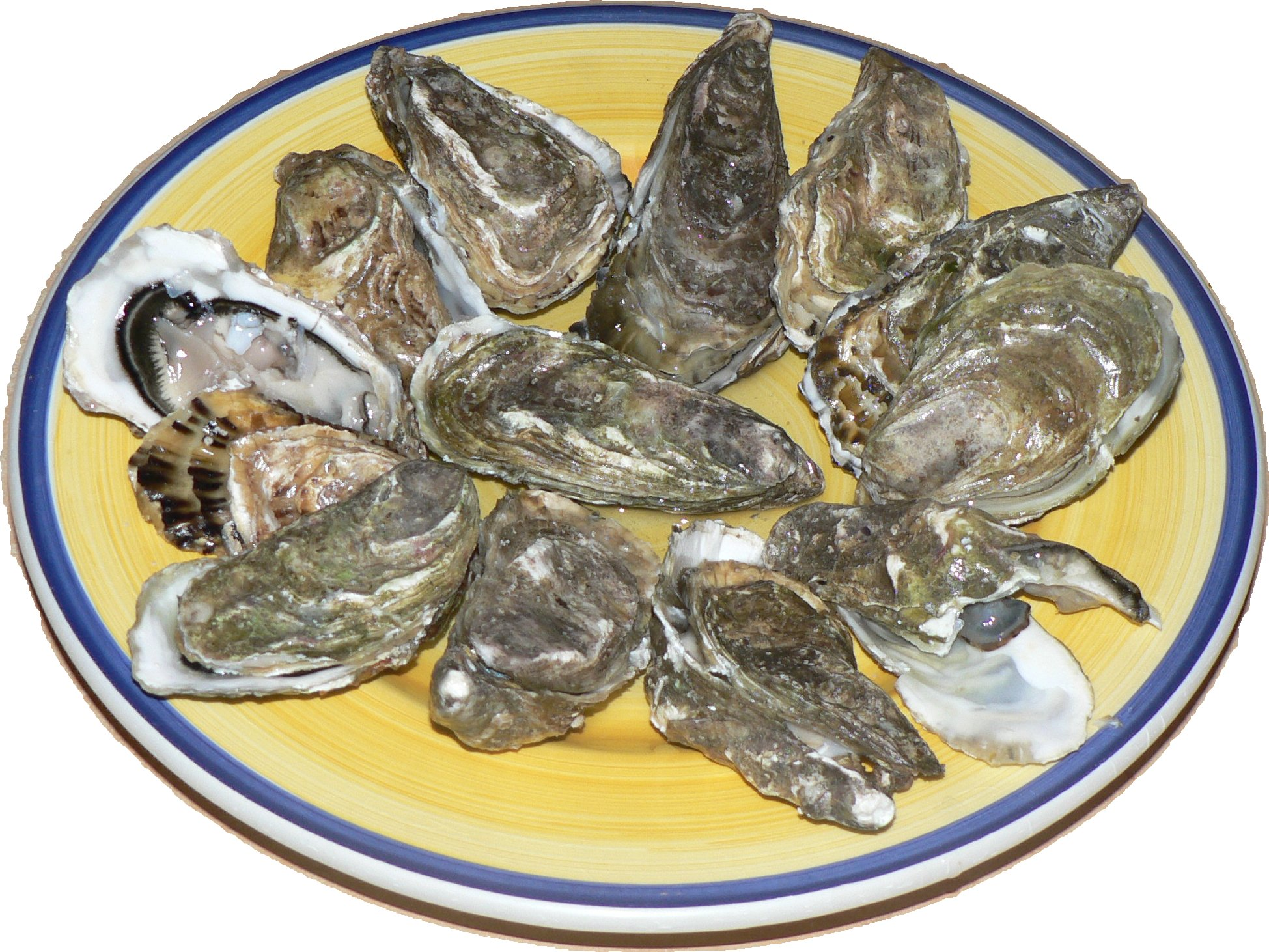 Oysters, opened, ready for consumption, raw